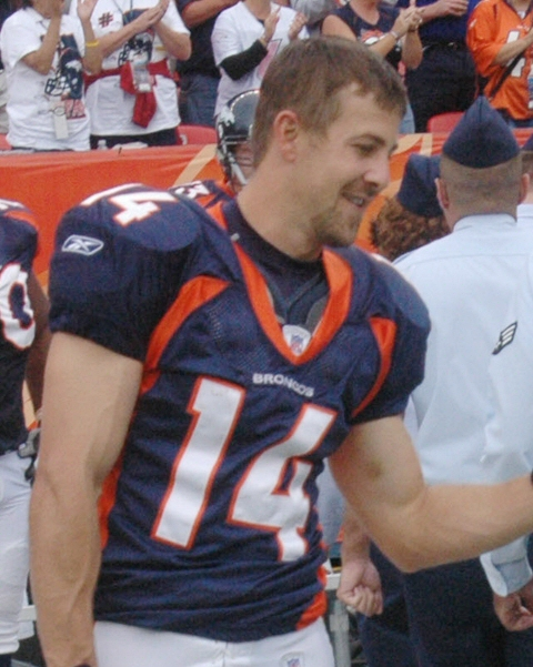 Denver Broncos receiver Brandon Stokley, 14, greets members of the Peterson contingent after the halftime celebration at Invesco Field at Mile High in Denver Sept. 16. There were 25 Airmen from Peterson selected to take part in the salute to the military halftime show. (Photo by Walt Johnson)